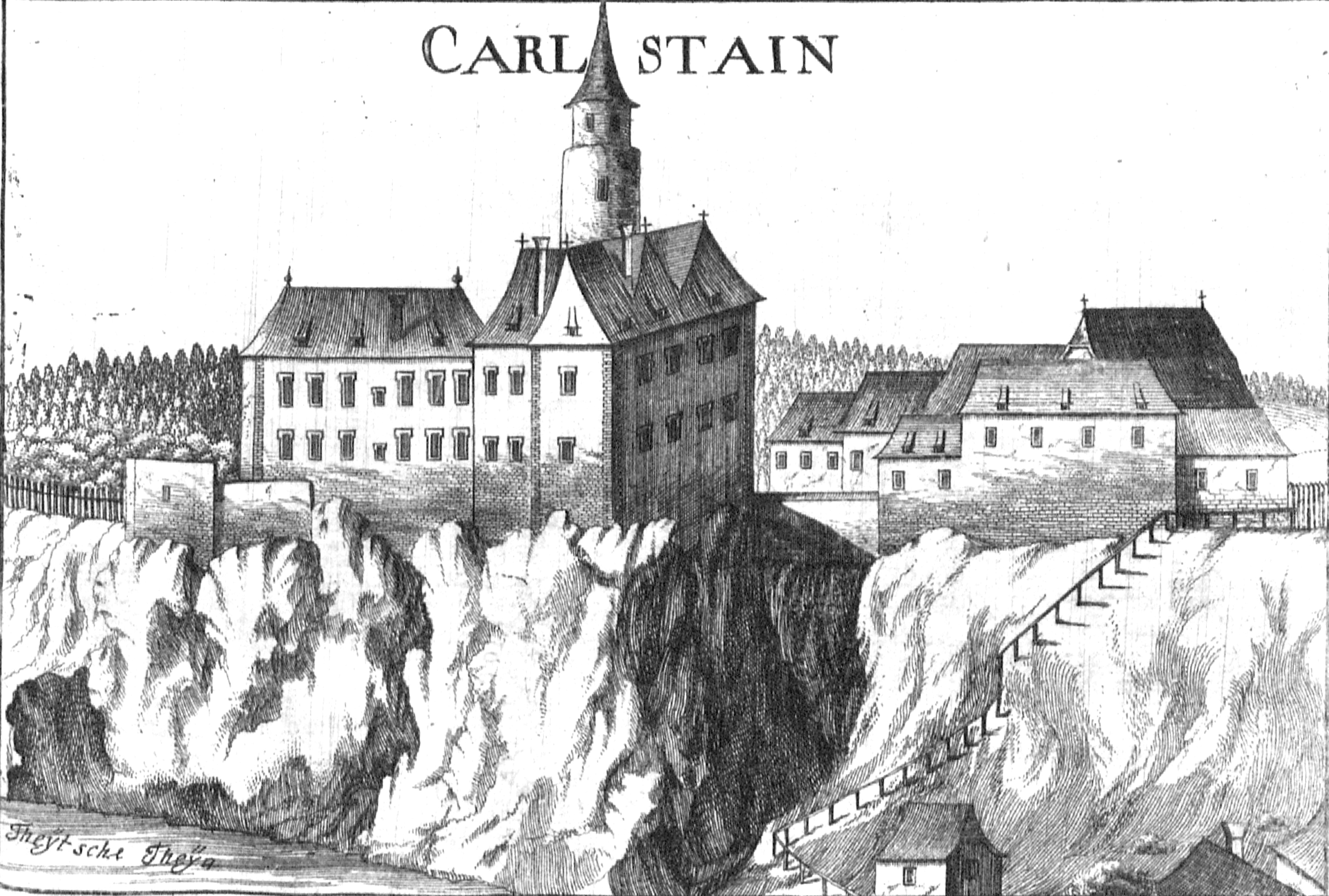 Castle Karlstein in Lower Austria